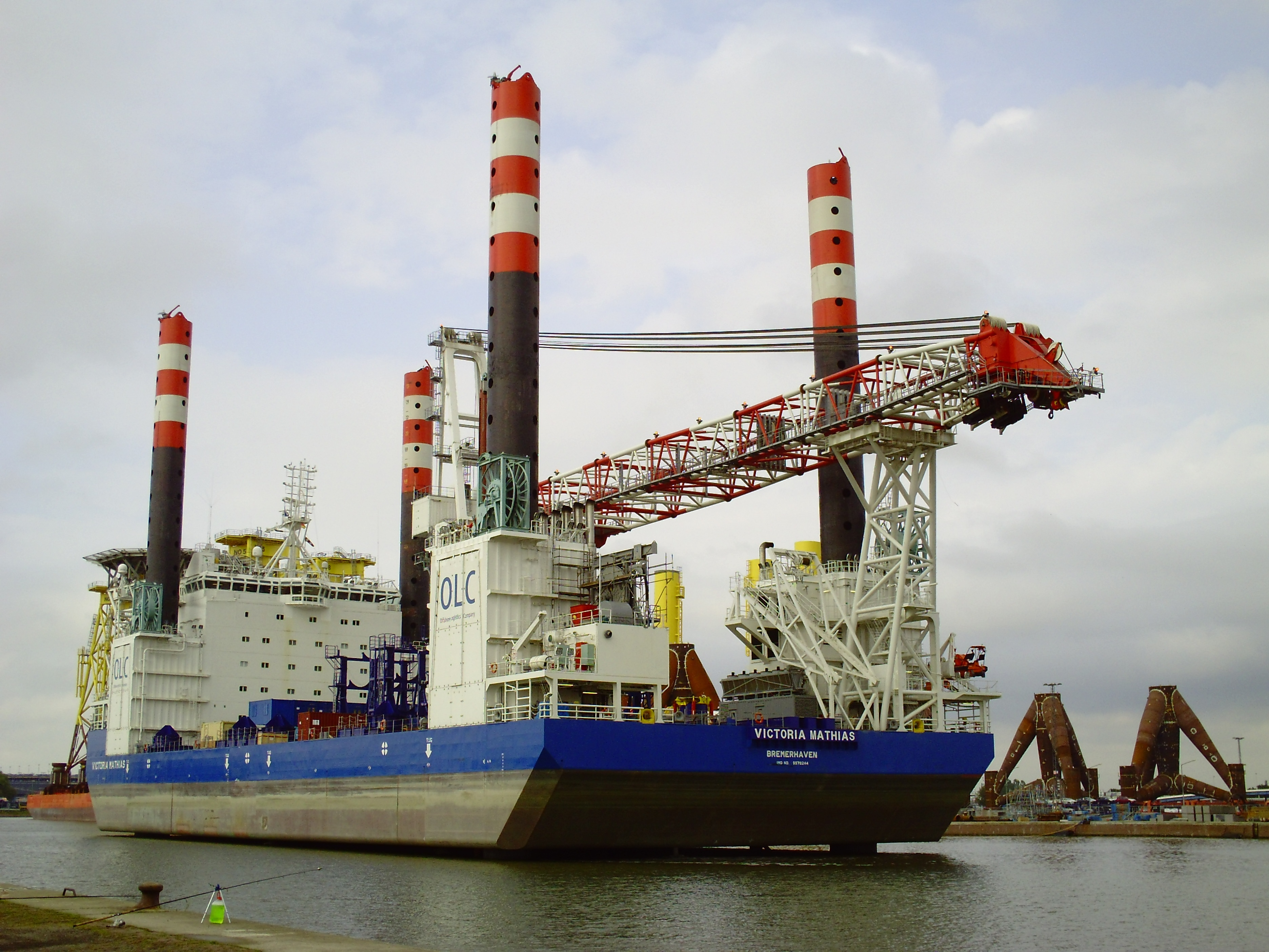 The heavy-lift jack-up vessel for offshore windfarms Victoria Mathias in Bremerhaven. The ship is named after a coal mine in the Ruhrgebiet.